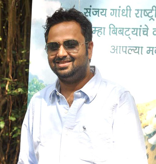 Hindi film director Nikhil Advani at the promotional event of his film Delhi Safari.